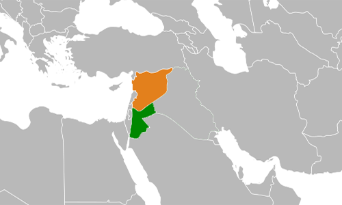 Locator map Jordan (green) and Syria (orange), they formed a Unified Political Command in 1975/76